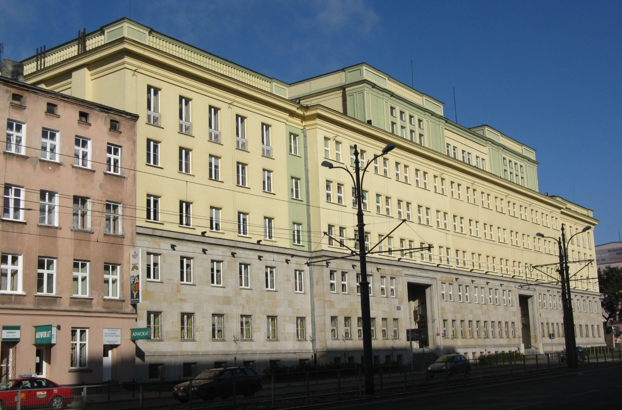 Lodz-Srodmiescie Regional Court building, Lodz, Kosciuszki Av.